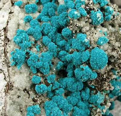 Rosasite, Smithsonite Locality: Silver Bill Mine, Costello Mine group (Costello claims), Gleeson, Turquoise District (Courtland-Gleeson District), Dragoon Mts, Cochise County, Arizona, USA (Locality at ) Size: 4.8 x 4.1 x 2.4 cm. A rare and attractive rosasite from this small and seldom-seen locality. A Harold Urish note accompanying the piece says he self-collected it in 1988 (as he was pushing 70 years old) through the so-called Mystery Tunnel. This is, therefore, more recent than I had thought, having previously seen anything from here only in older collections. The matrix is sparkling white, microcrystallized smithsonite on rock. Ex. Harold Urish Collection.